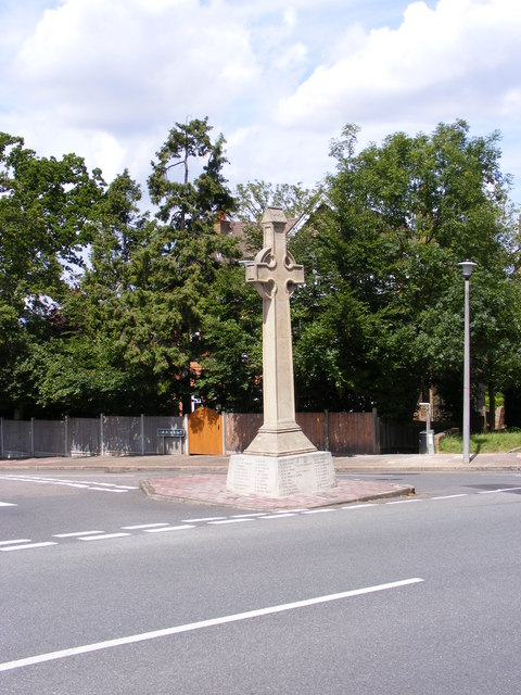 Shortlands Cenotaph The Memorial to the first world war erected in 1921 stands on the junction of Church Road and Kingswood Road Shortlands, Bromley.